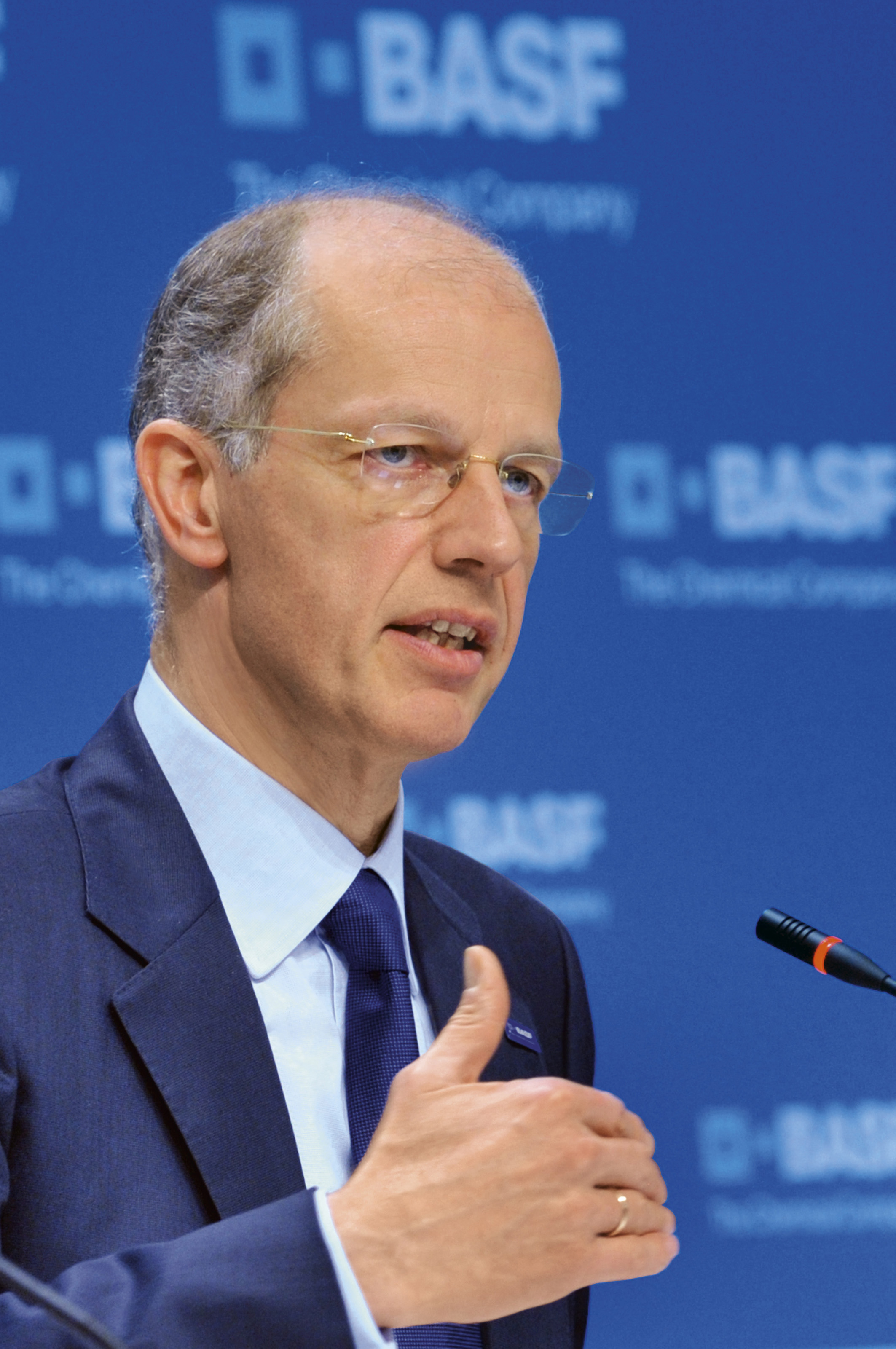 Dr. Kurt Bock, 55. Chairman of the Board of Executive Directors, Business economist, with BASF for 22 years. Legal; Taxes & Insurance; Strategic Planning & Controlling; Communications & Government Relations; Global HR; Executive Management & Development; Investor Relations; Chief Compliance Officer.